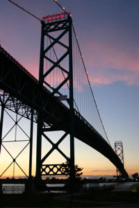 A self taken shot of the Ambassador bridge on the Canadian/American border, taken in the evening from the Canadian side of the border (Windsor)